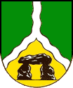 Coat of Arms of Oldendorf (Luhe)